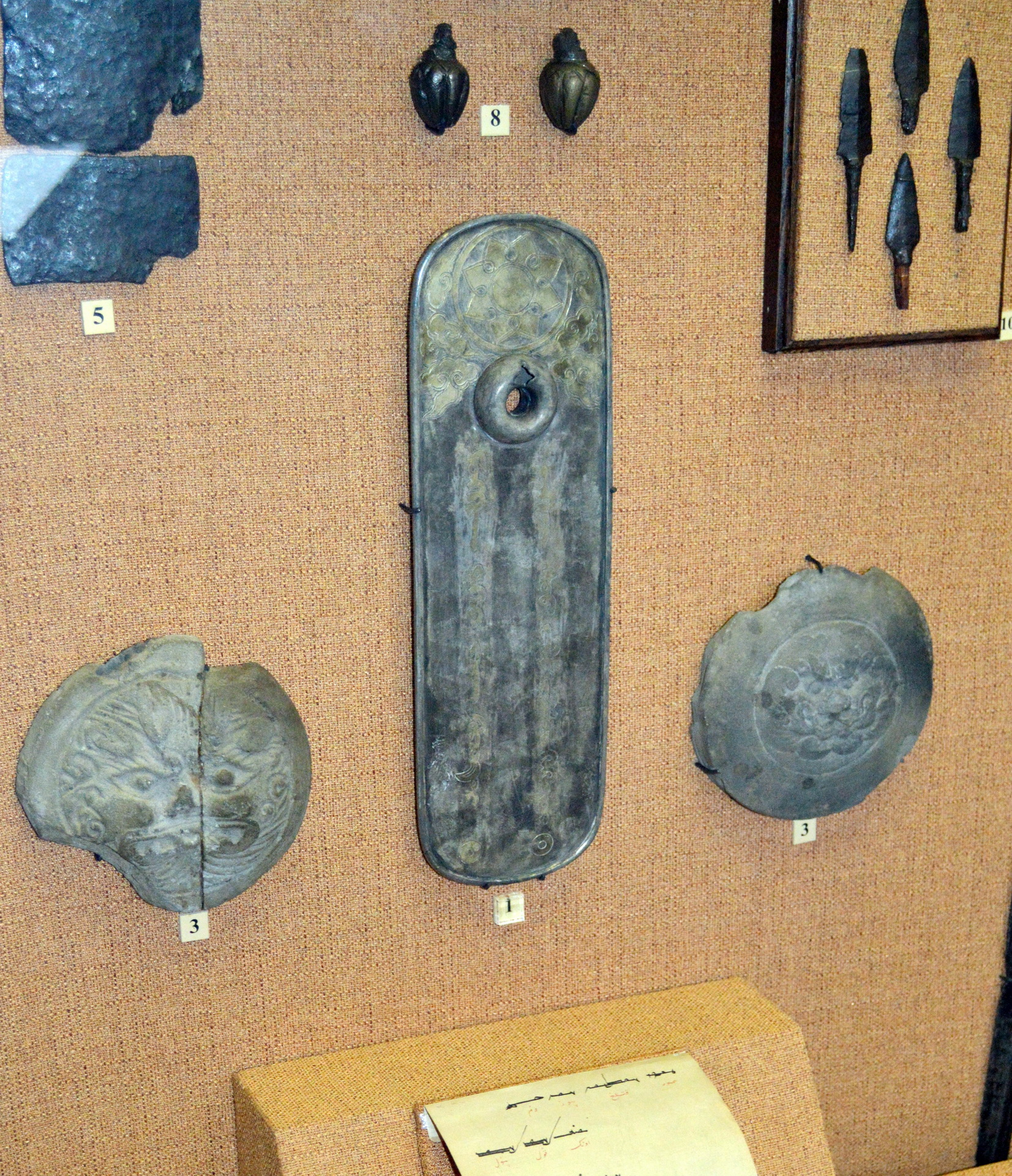 Paiza of Oz Beg Khan. Silver. Golden Horde, first half of 14 century. Decorations of roof, clay, Karakorum, 14 century.